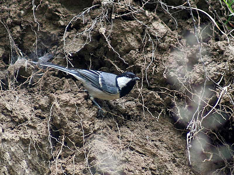 Cinereous Tit Parus cinereus in Kullu District of Himachal Pradesh, India.